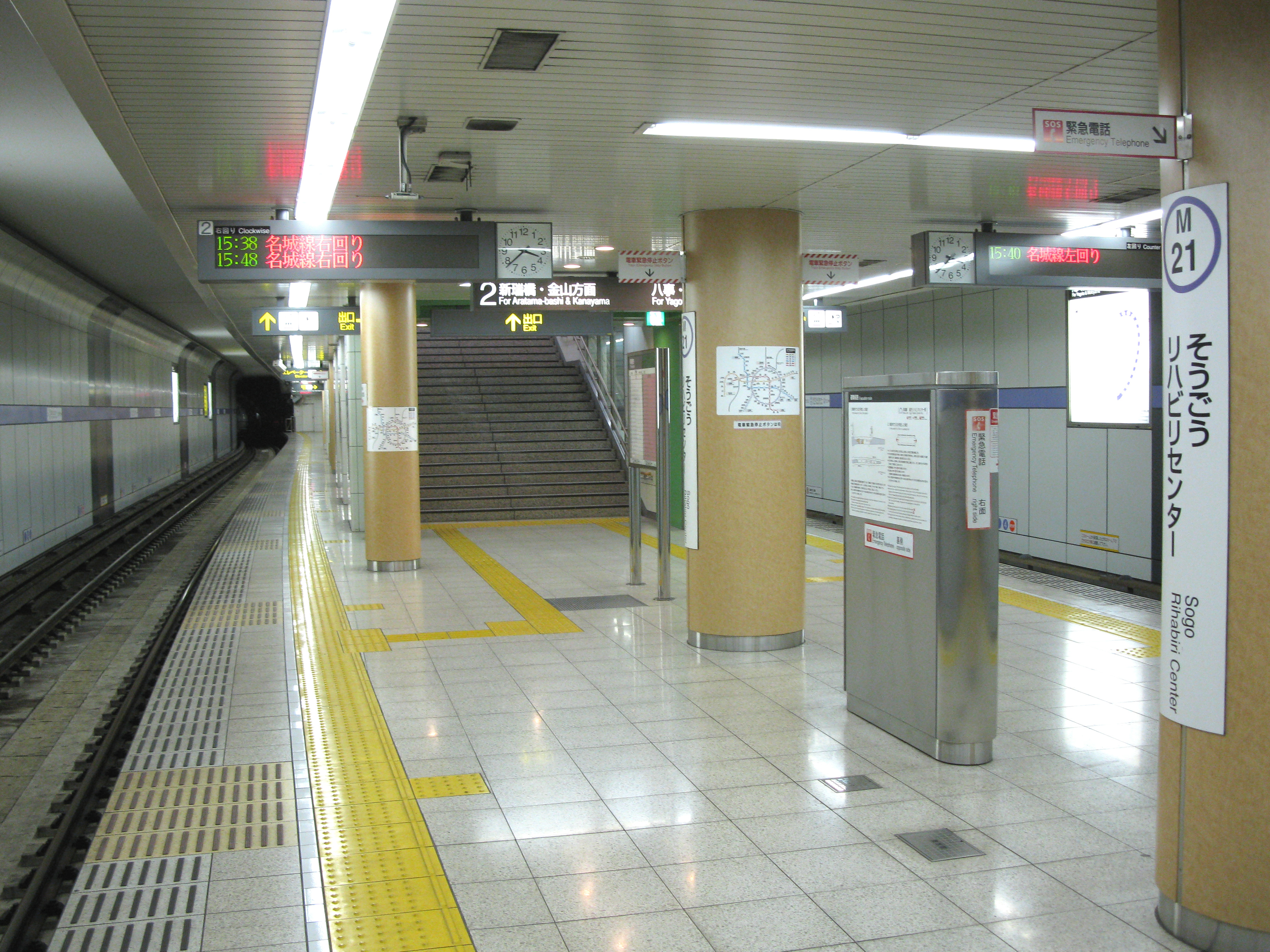 Sōgō Rihabiri Center Station platform (Nagoya Municipal Subway Meijō Line)